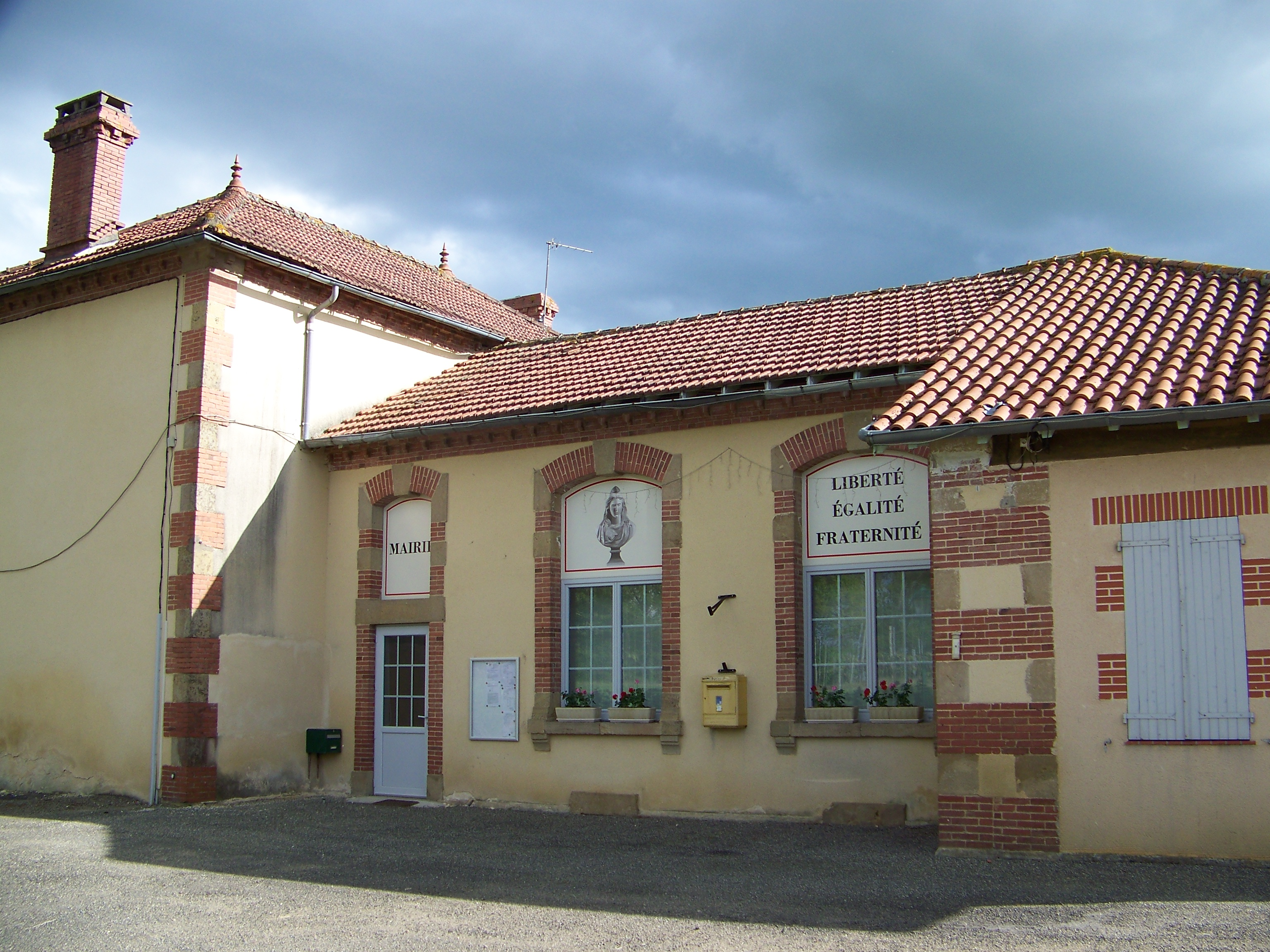 Mayor of Saint-Pierre-d'Aubézies (Canton of Aignan, district of Mirande, Gers)